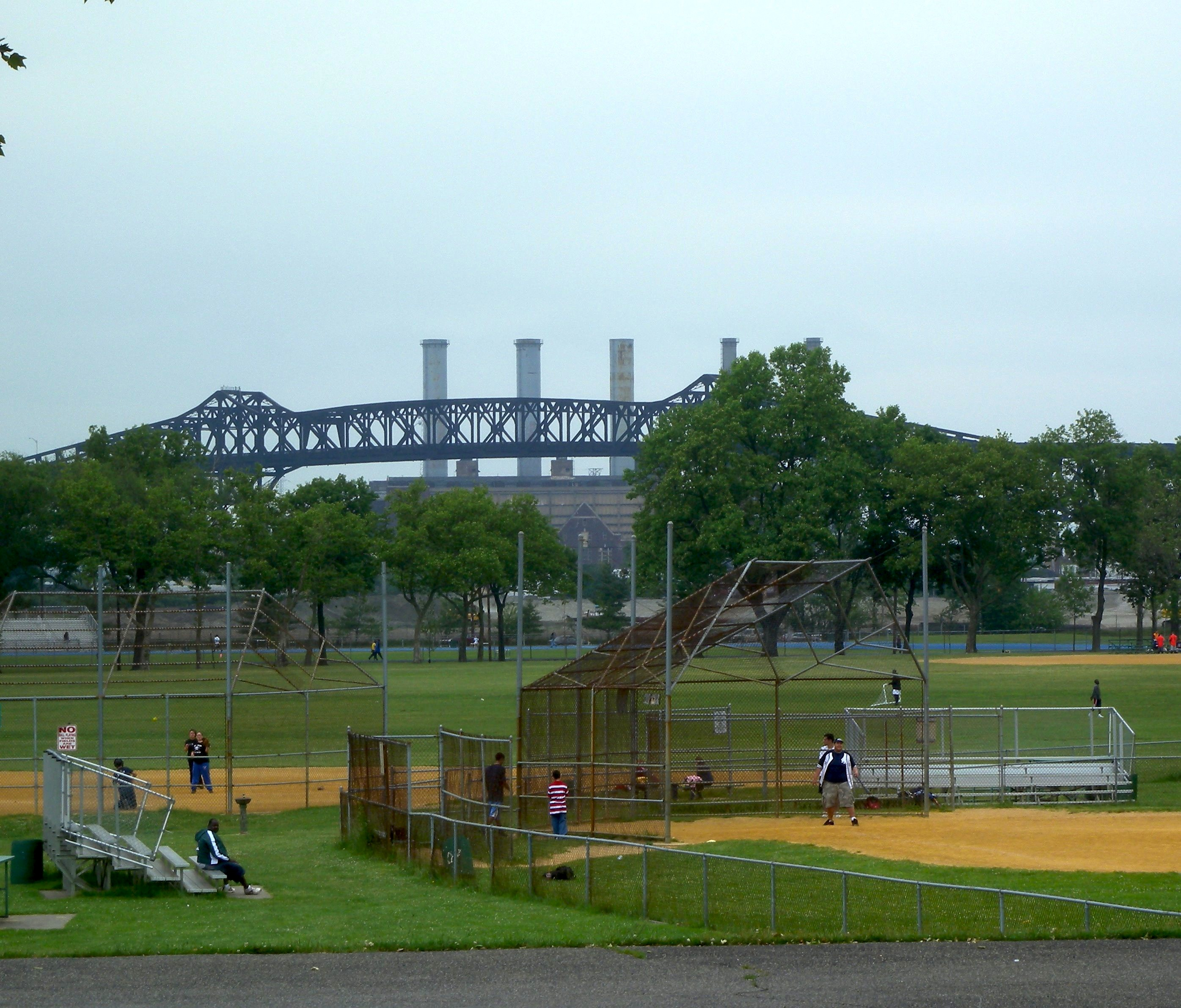 Looking northwest from near the Lincoln Park fountain, at Pulaski Skyway on a cloudy midday with File:PSEG Kearny peak jeh.JPG in far background.